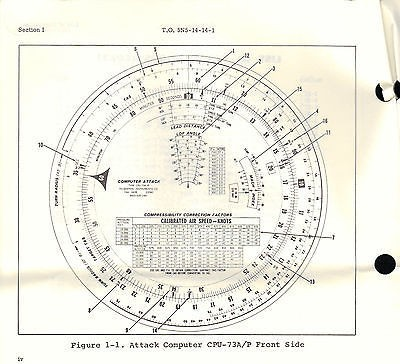 Diagram of the front of the Felsenthal CPU-73 A/P Air Navigation Attack Computer, a circular slide rule used by the United States Air Force.